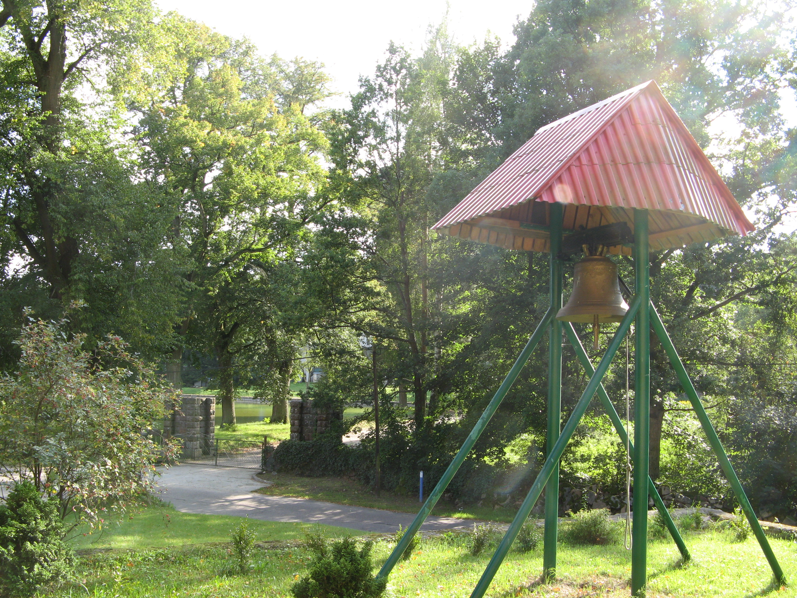 Churchbell and castlepark of Białowąs / Balfanz in the background